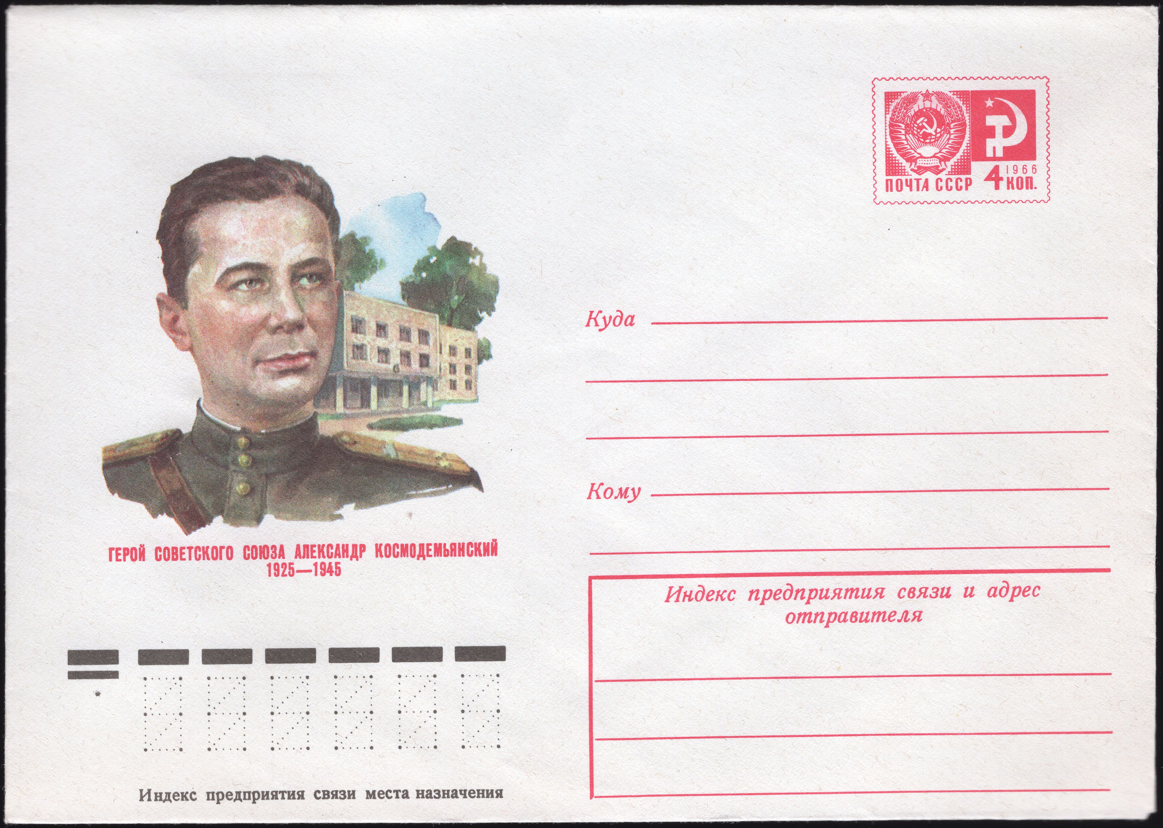 Hero of the Soviet Union Aleksandr Kosmodemyansky. 1925-1945. Series: Heroes of the Soviet Union. Artist Peter Bendel.